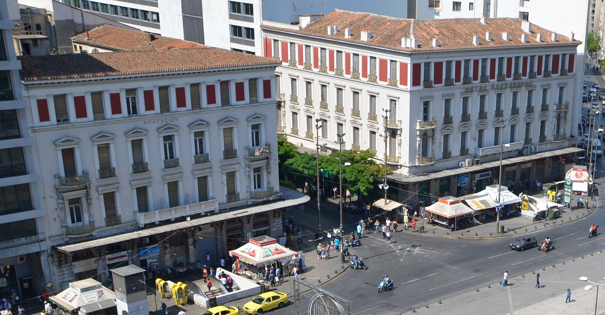 Two of the most recognizable buildings in Omonoia Square. The Bagkeion Mansion (Μπάγκειον) building on the left and the Megas Alexandros (Μέγας Αλέξανδρος) building on the right.